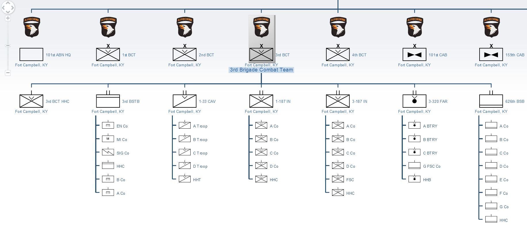 Organization structure of 3rd Brigade Combat Team (3rd BCT), 101st Airborne Division (Air Assault)